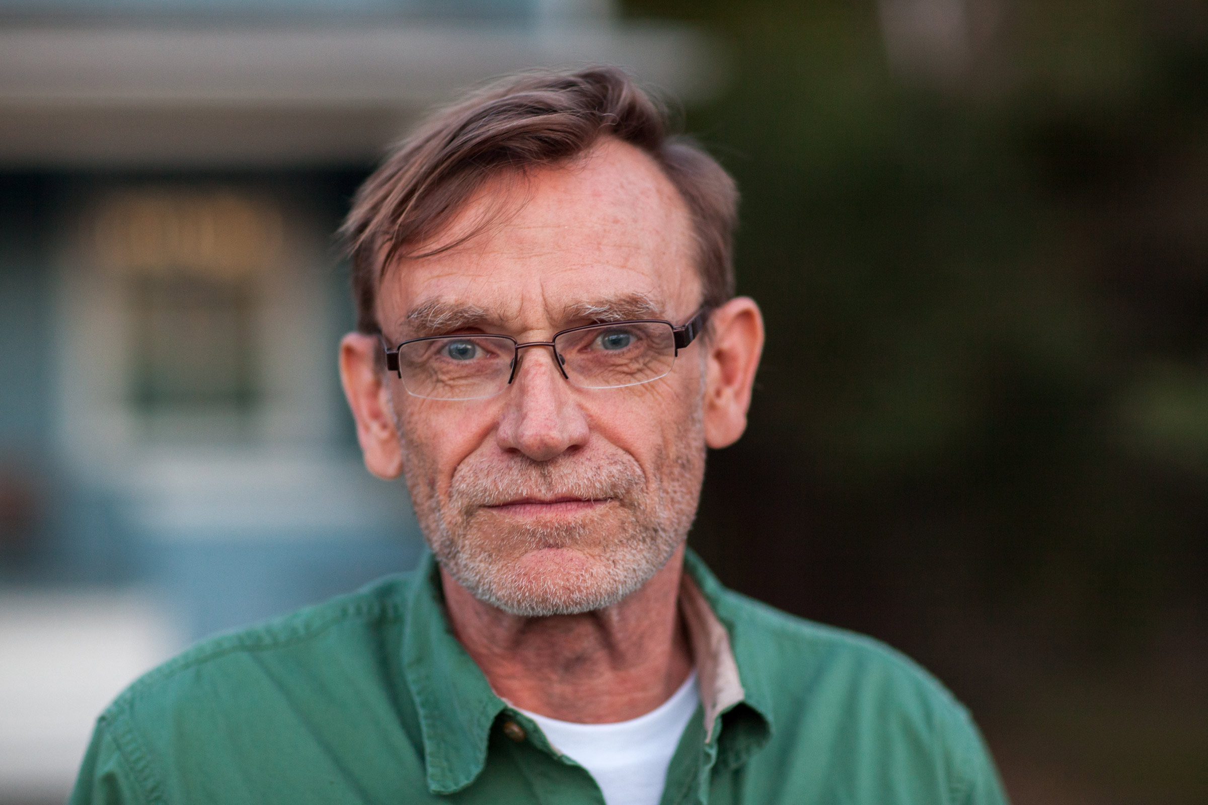 Chair of Mennonite Studies at the University of Winnipeg, Royden Loewen. Photographed in front of his house in Steinbach, Manitoba, by Maximilian Schönherr.